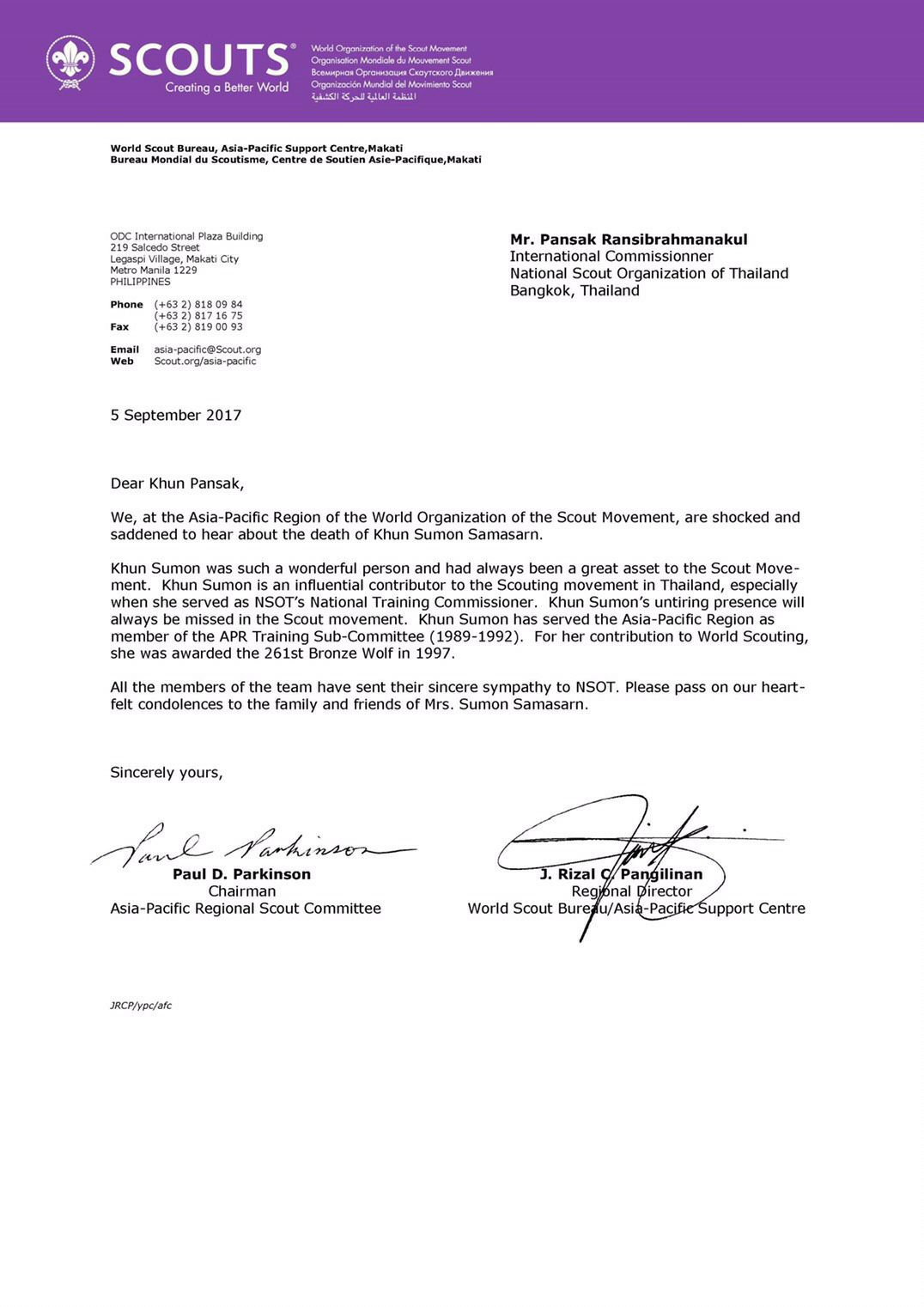 The letter from Paul D. Parkinson, recognizing the death of Samasarn and hailing her a great asset of the Scout Movement.